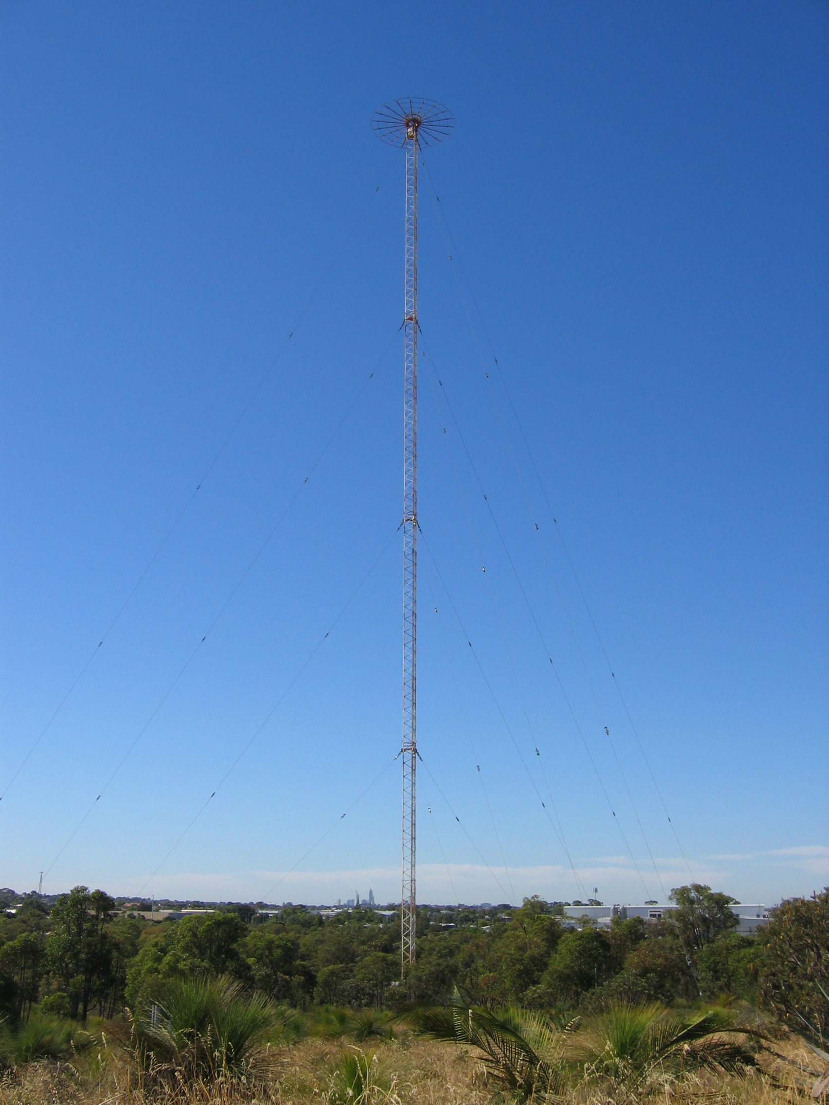 ABC AM radio mast (208 m) at Hamersley, Western Australia along Wanneroo Road (taken from Blissett Way).